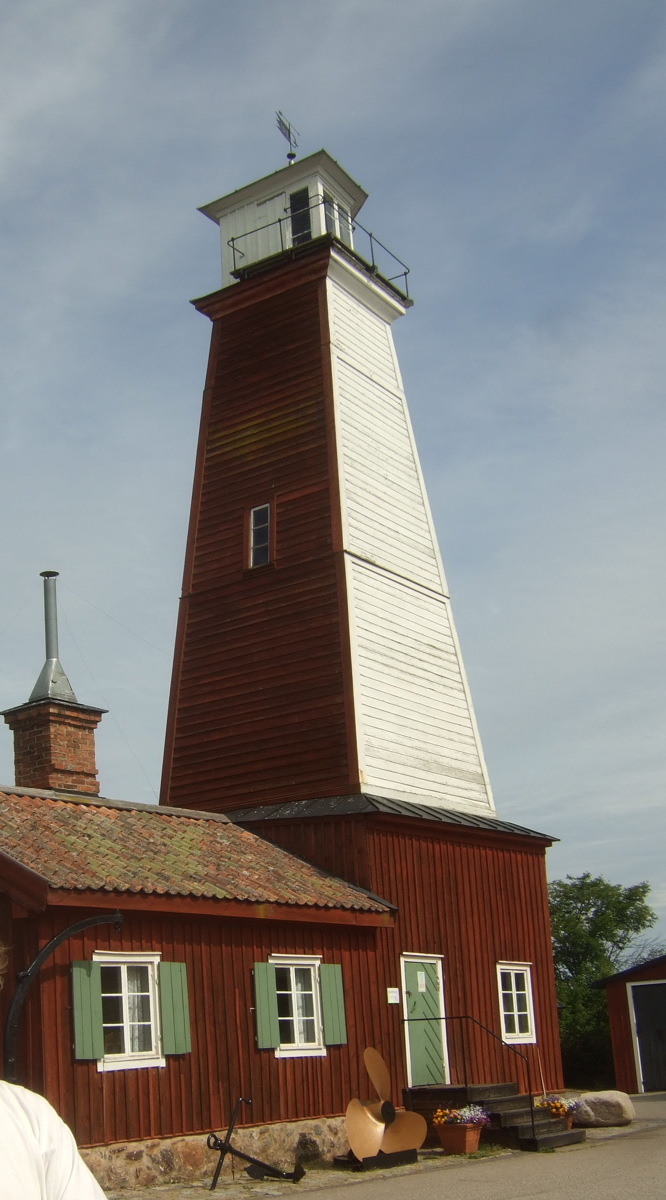 The lighthouse building of "Bönans fyrplats" at Lotsvägen 12 in Gävle Municipality, viewed from south